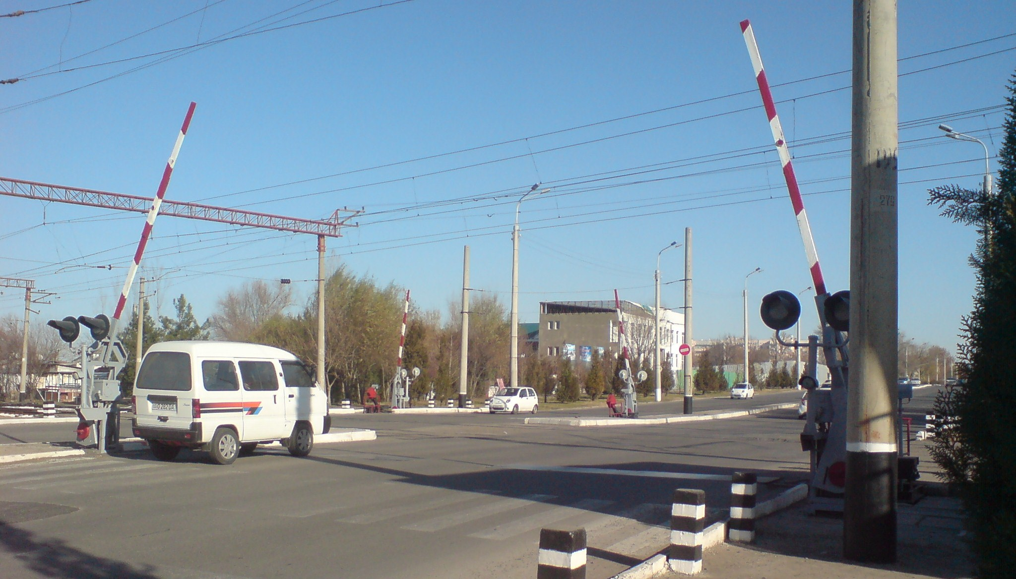 Ziyolilar street, rail-highway crossing (Tashkent - Khojikent line), Tashkent city